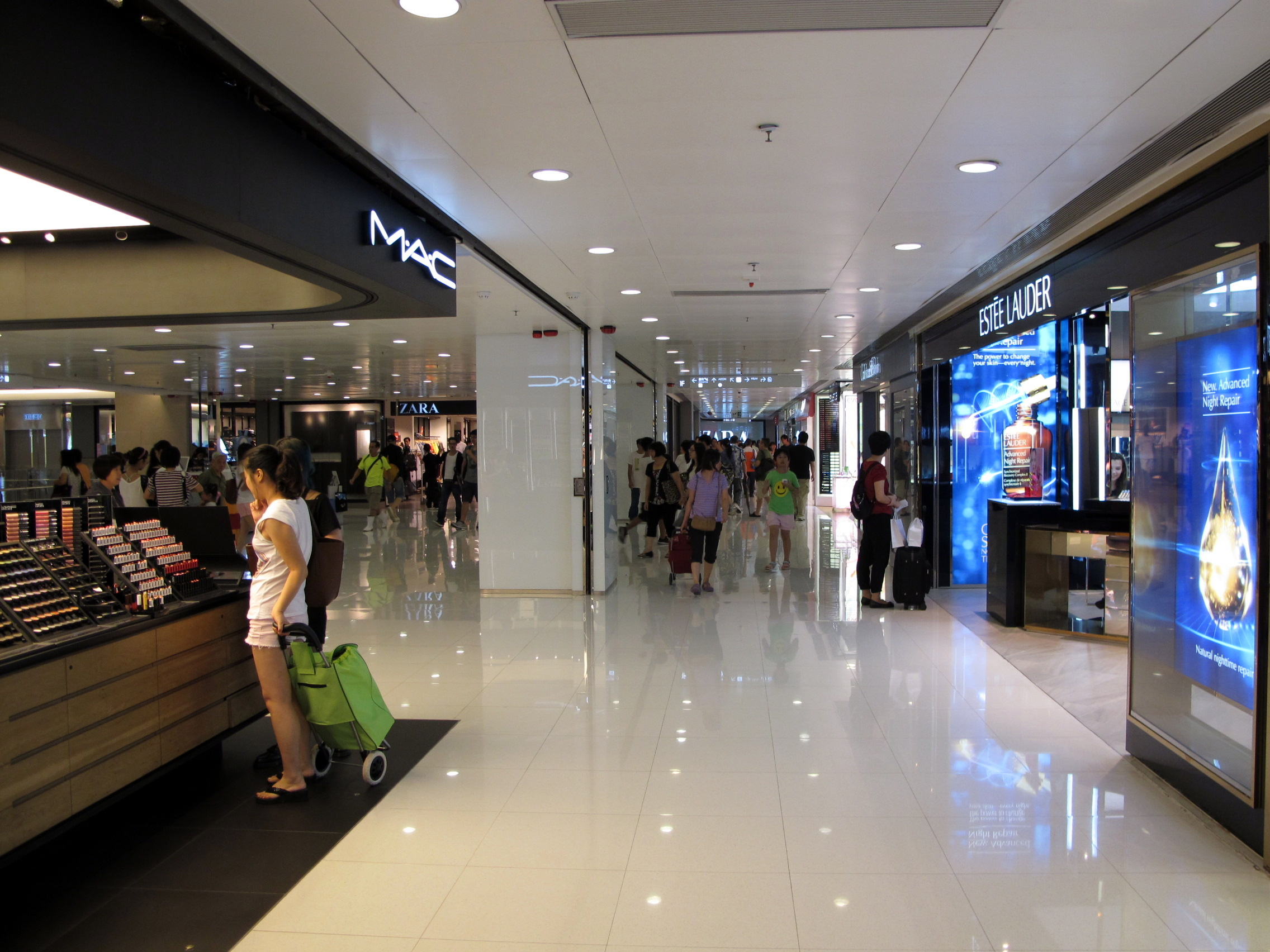 Tmtp Level 1 shops